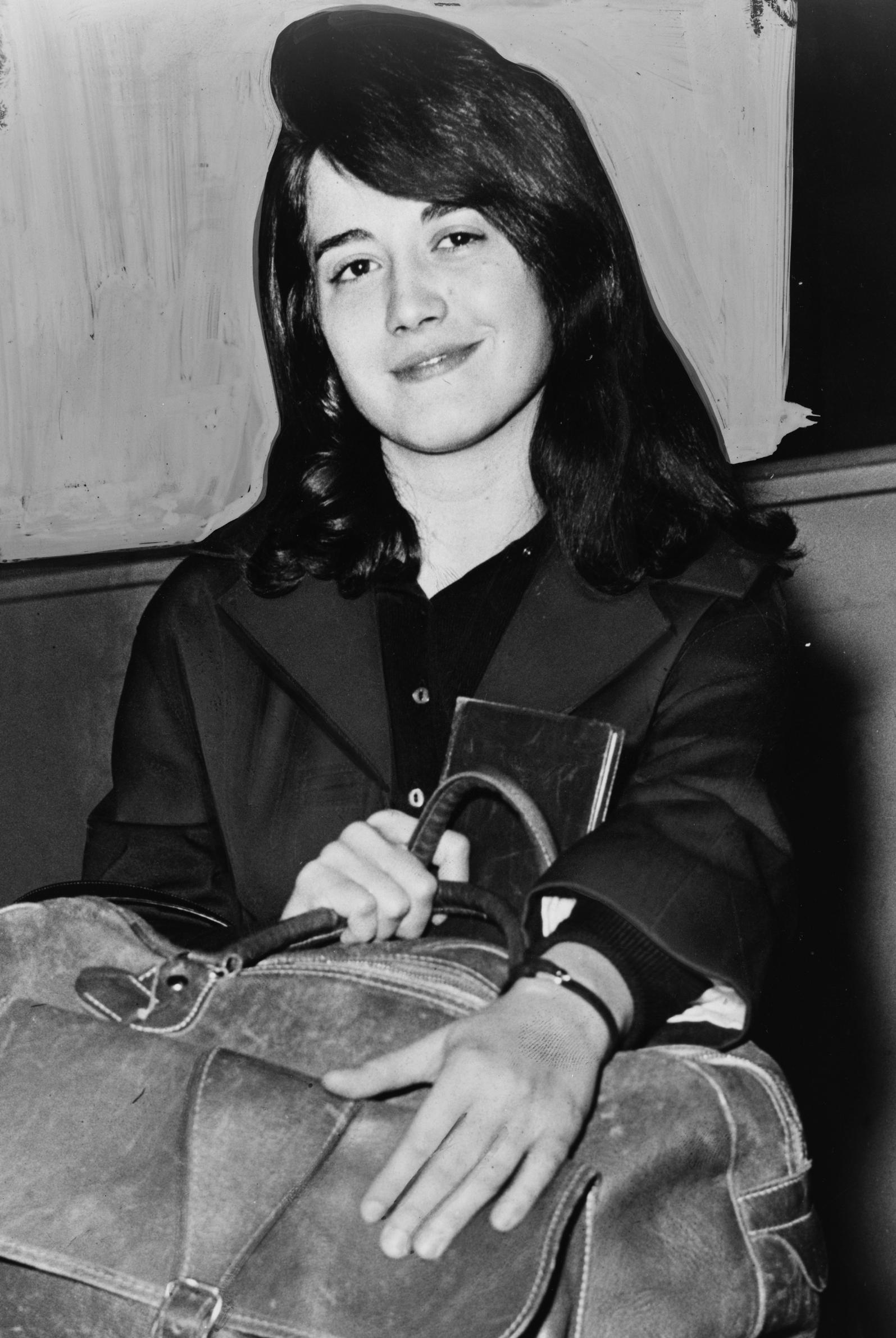 Martha Argerich, Argentine pianist, at Pier 86 (NYC), after having arrived on the liner Constitution. Born June 5, 1941, her aversion to the press and publicity has resulted in her remaining out of the limelight for most of her career. She has given relatively few interviews. As a result, she may not be as well known as other pianists of similar caliber. Despite this, she is widely recognized as one of the great piano virtuosos of our time.